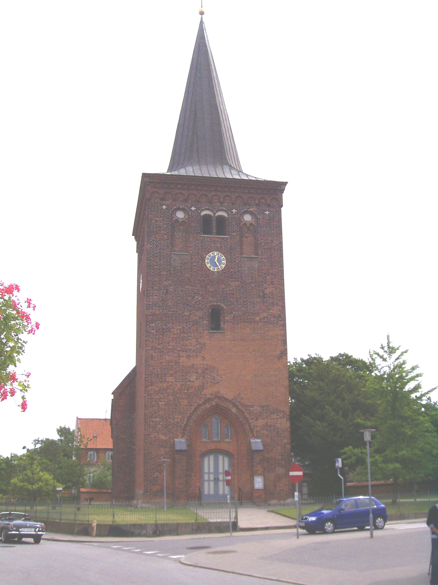 Church in Sakskøbing, Community of Sakskøbing, diocese of Lolland-Falster. Date: 2006.07.12 Author: Sir48